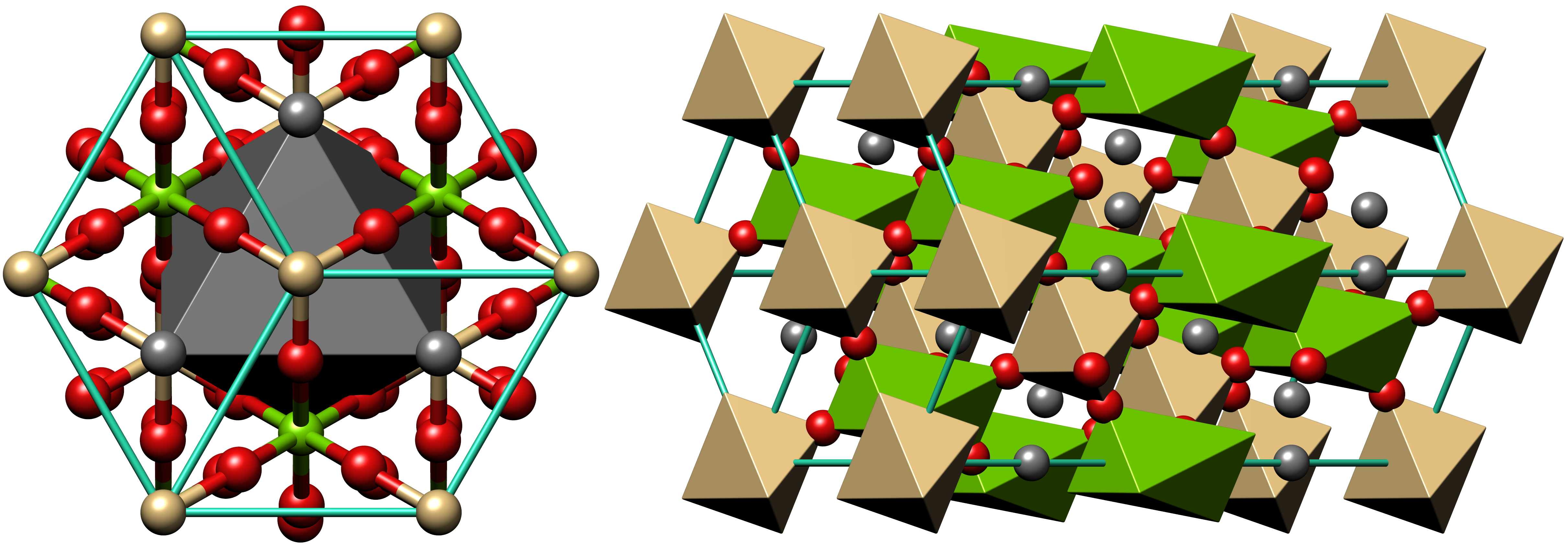 Crystal structure of Cd-dolomite - CdMg(CO3)2. American Mineralogist 46 (1961) 1283-1316 Magnesium, Mg: green Carbon, C: grey Cadmium, Cd: sand Oxygen, O: red Cell: blue-green